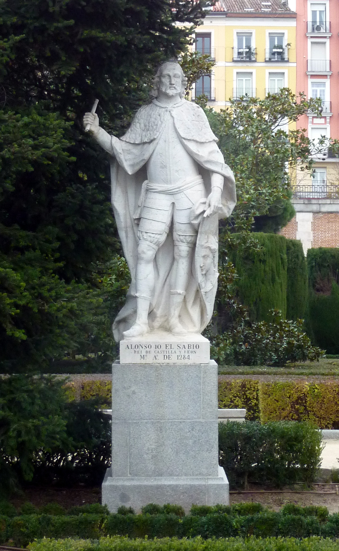 Statue of Alfonso X of Castile at the Sabatini Gardens in Madrid (Spain). Sculpted in white stone by Juan de Villanueva Barbales between 1750 and 1753.